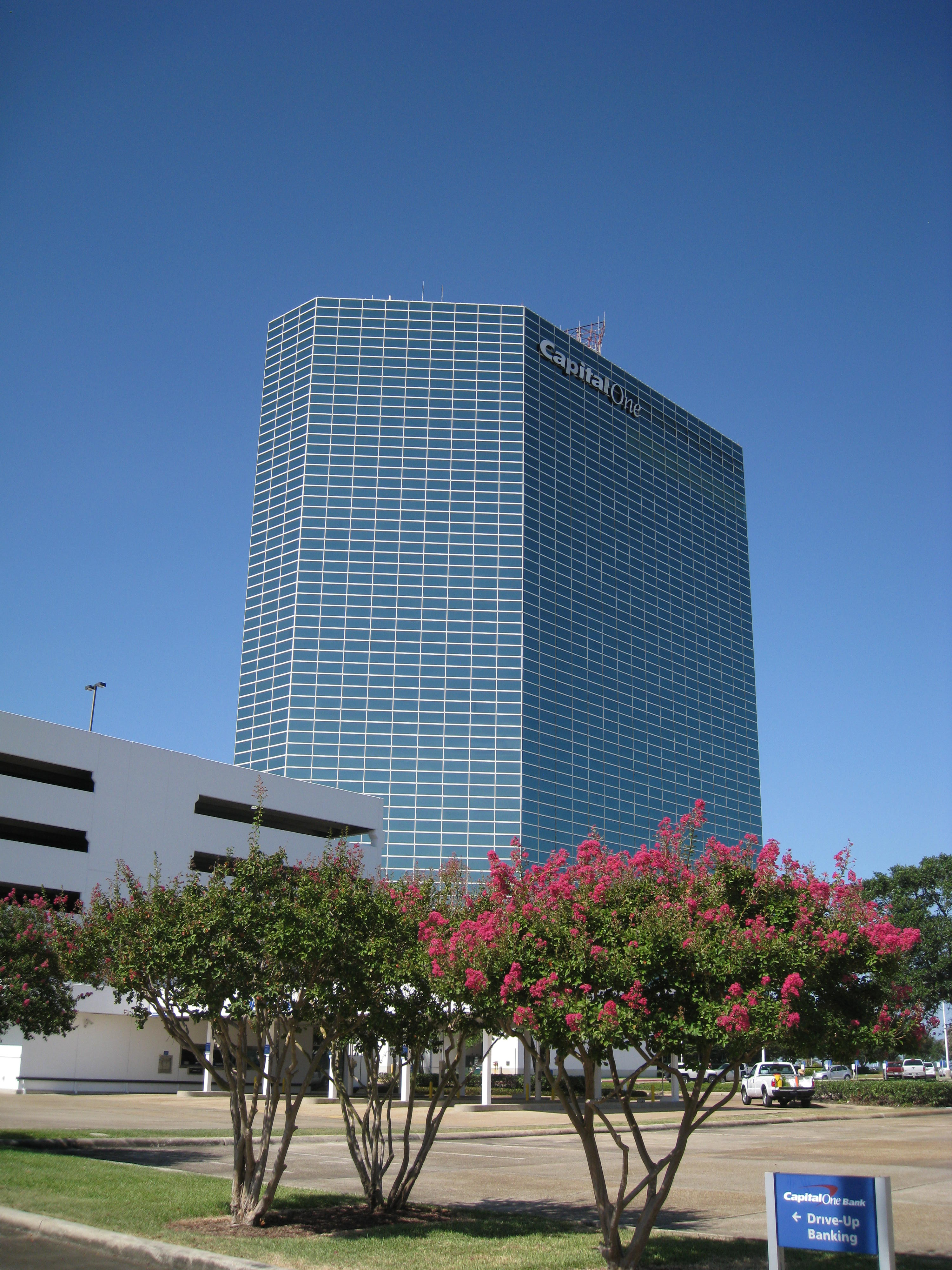 Capital One Tower in downtown Lake Charles, Louisiana.